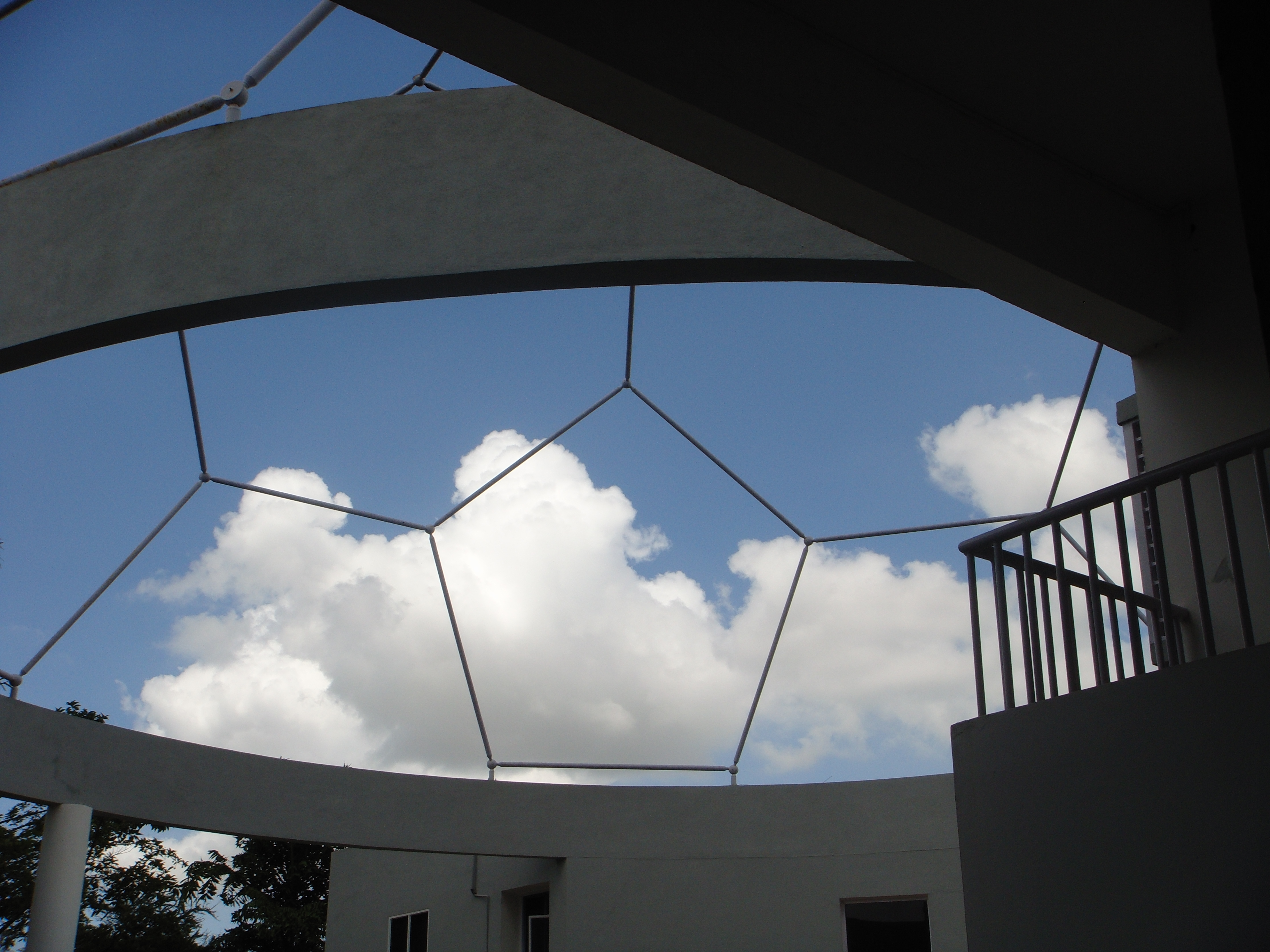 This is the picture of Buckyball at Pauling Building in JNCASR, Jakkur, Bangalore, India